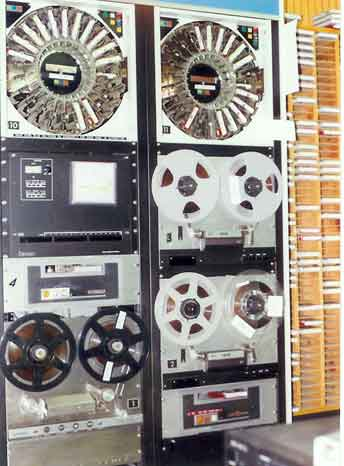 Harris automation system used at the former WWJQ (now WPNW) in 1993. Photograph taken by myself during an internship at WJQ AM & FM in 1993.